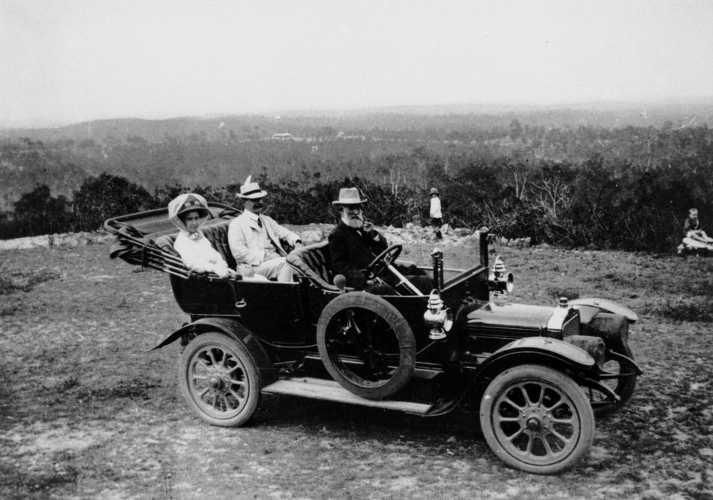 Talbot motor car parked at Whites Hill, Brisbane, 1911 Driver with passengers in a British-built Talbot touring car. This is a 1910 model tourer.